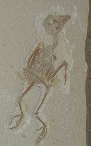 Photograph of a fossil of an extinct Coraciiformes bird (kingfisher) from the Green River Formation of Wyoming. From the Royal Tyrrell Museum of Drumheller, Alberta, August of 2006.